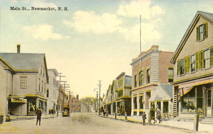 Main Street, Newmarket, New Hampshire; from a c. 1912 postcard.